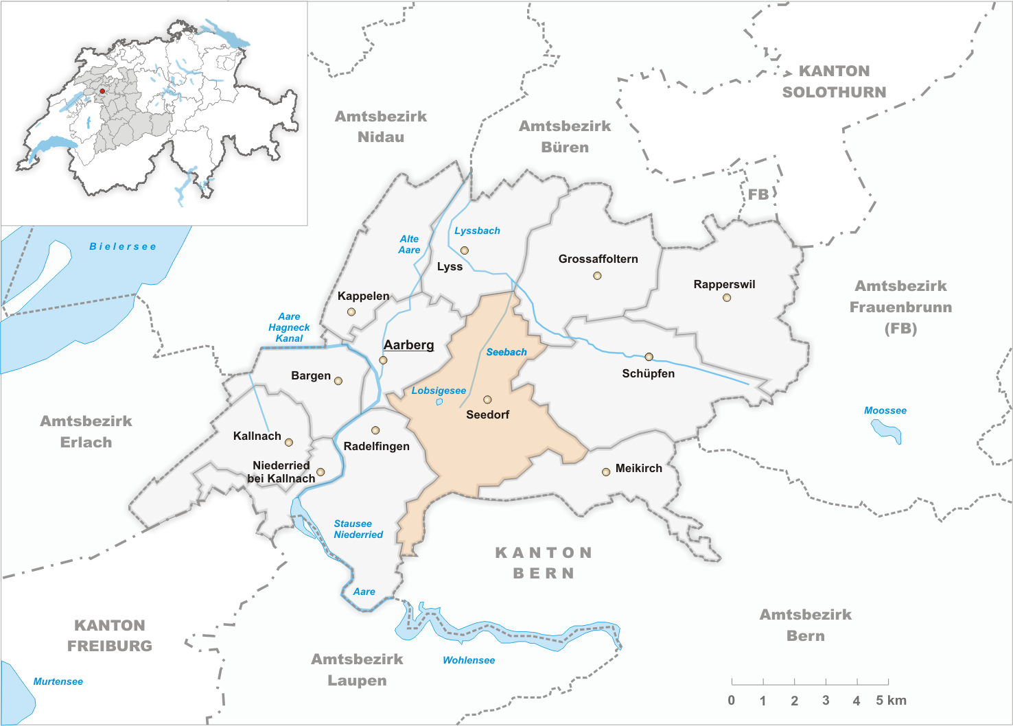 Municipality Seedorf